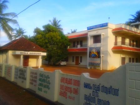 Malankara Church of God old and new buildings side-by-side